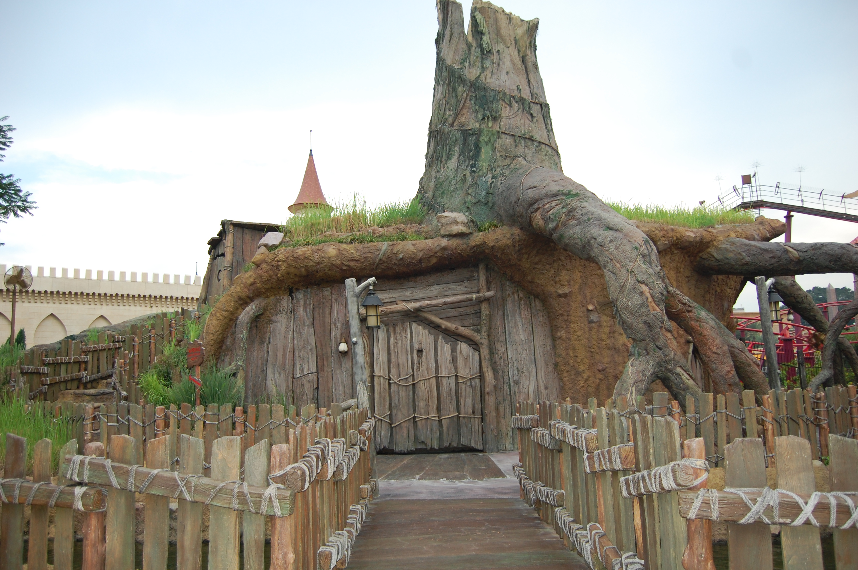 Universal Studio Singapore